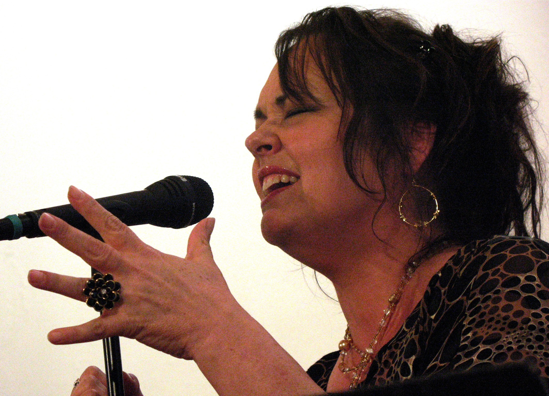 Cae Gauntt, concert picture, 06/21/2009, Hoechsten Church, Deggenhausertal, Germany